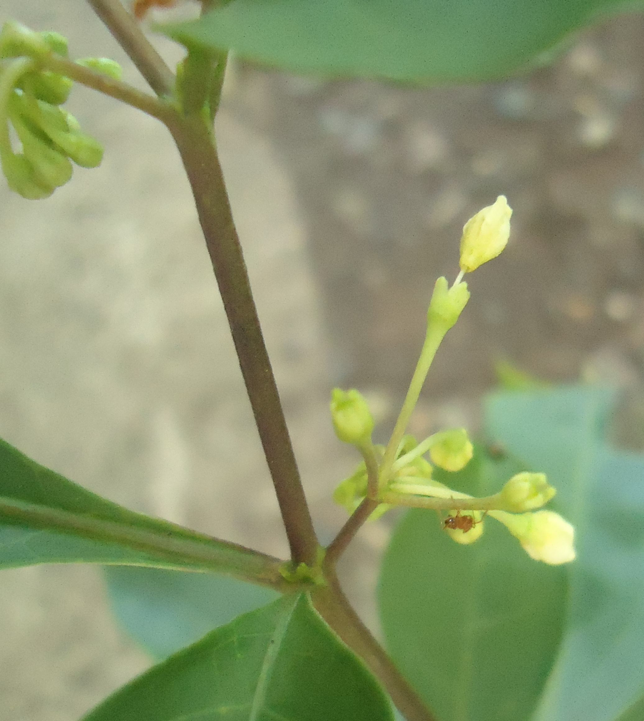 Twoleaf nightshade (Solanum diphyllum) Inflorescence opposite the major and minor leaves in a leaf pair.